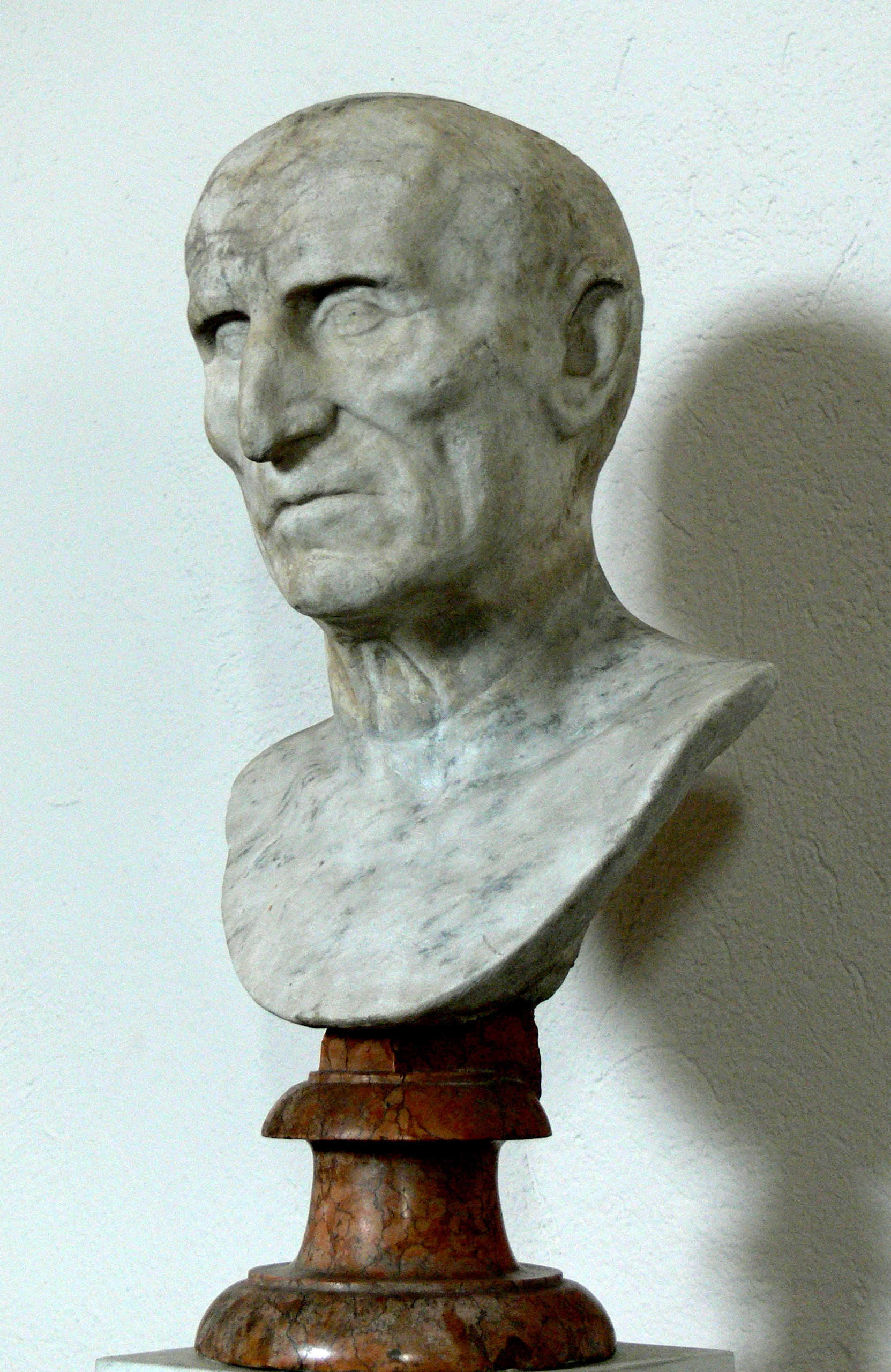 Antiques Museum in the Royal Palace, Stockholm. Bust of Roman emperor Galba.